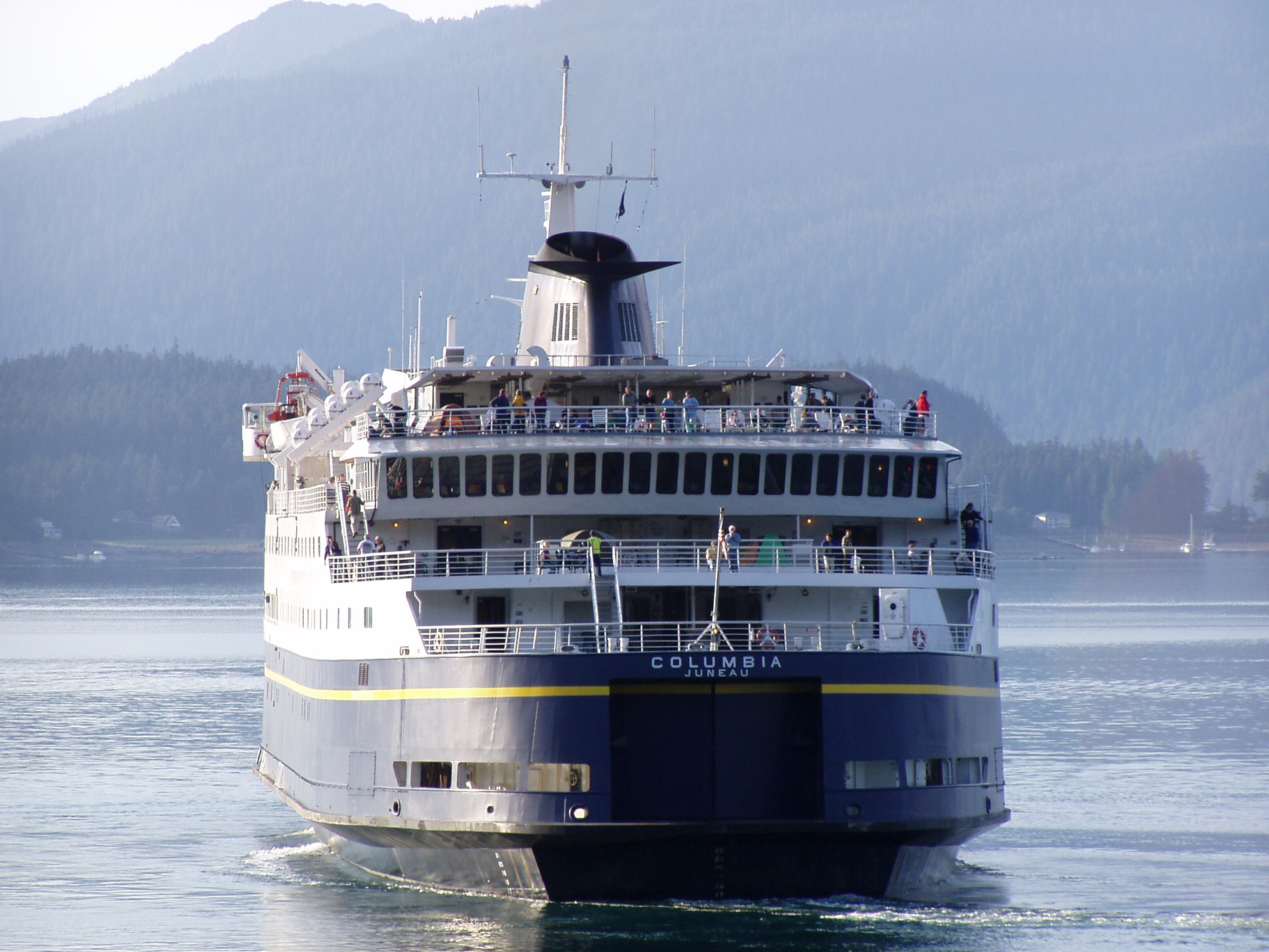 Columbia stern decks